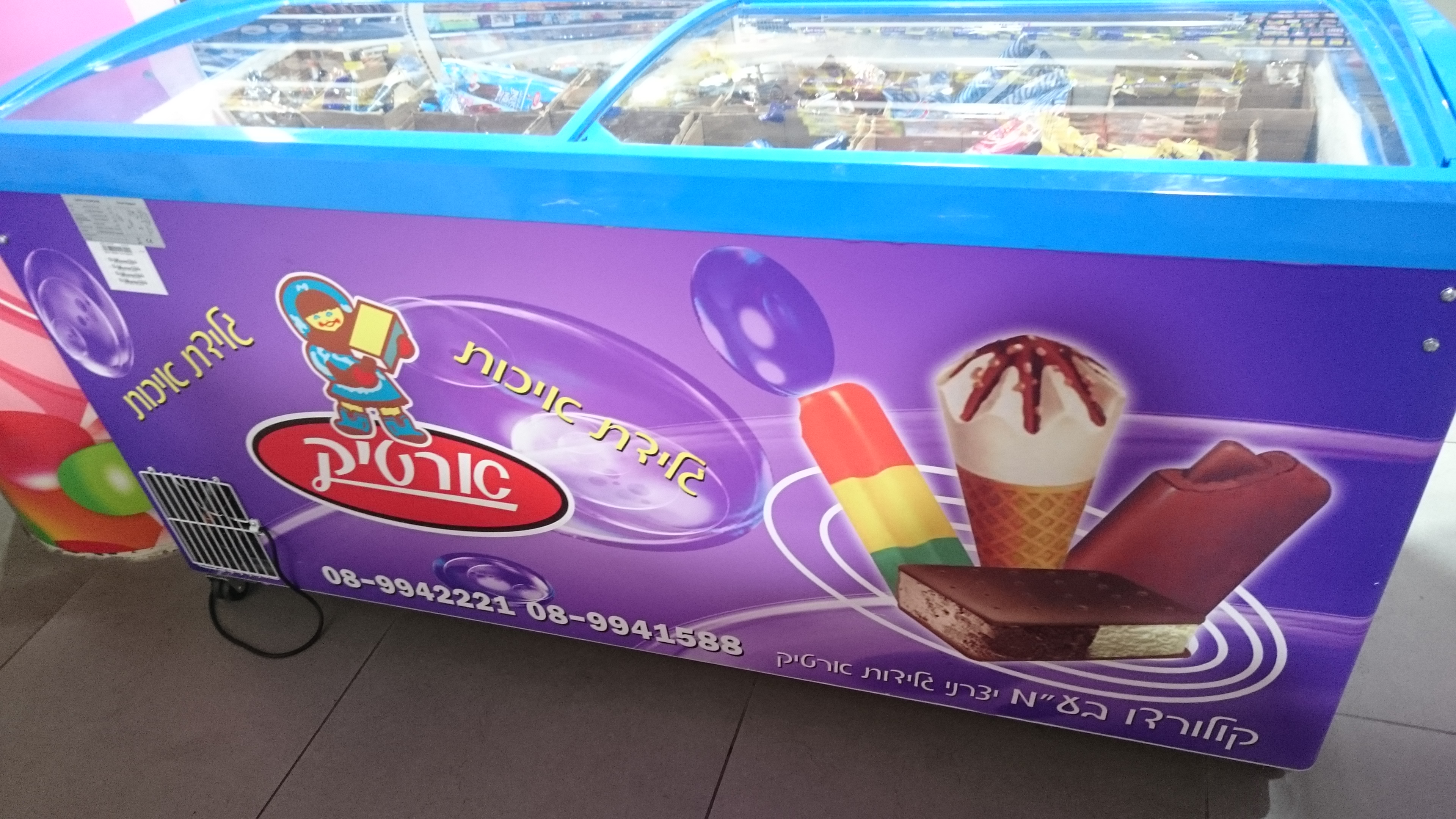 Artik ice cream freezer (SD-575K) inside a shop in Kfar Sava, Israel.